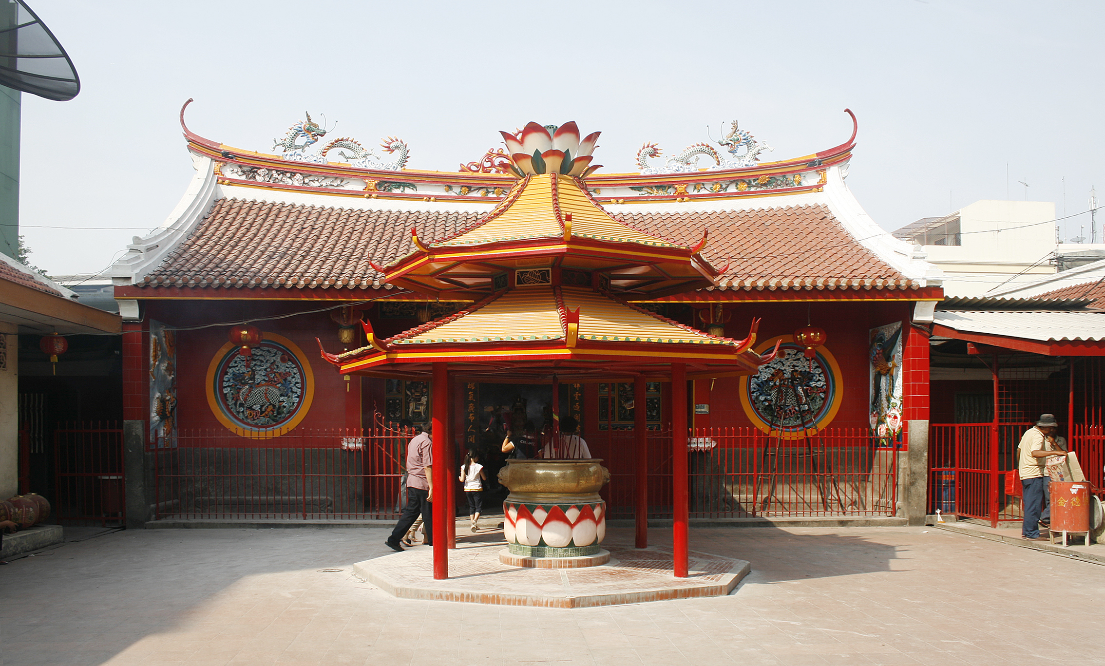 Jin De Yuan Chinese temple (Vihara Dharma Bhakti) in Glodok, Jakarta Chinatown, Indonesia.